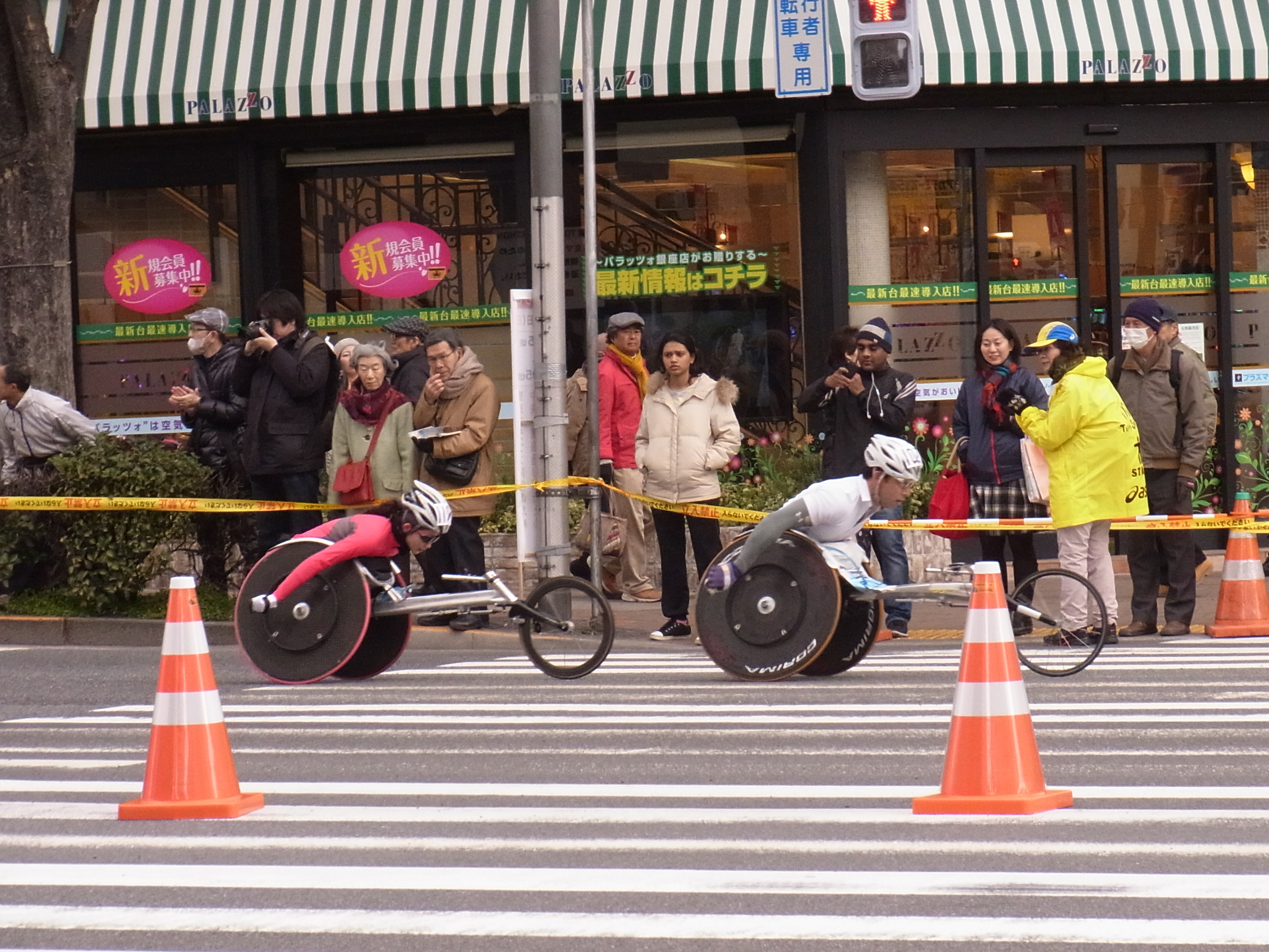 2014 Tokyo Marathon wheelchair race